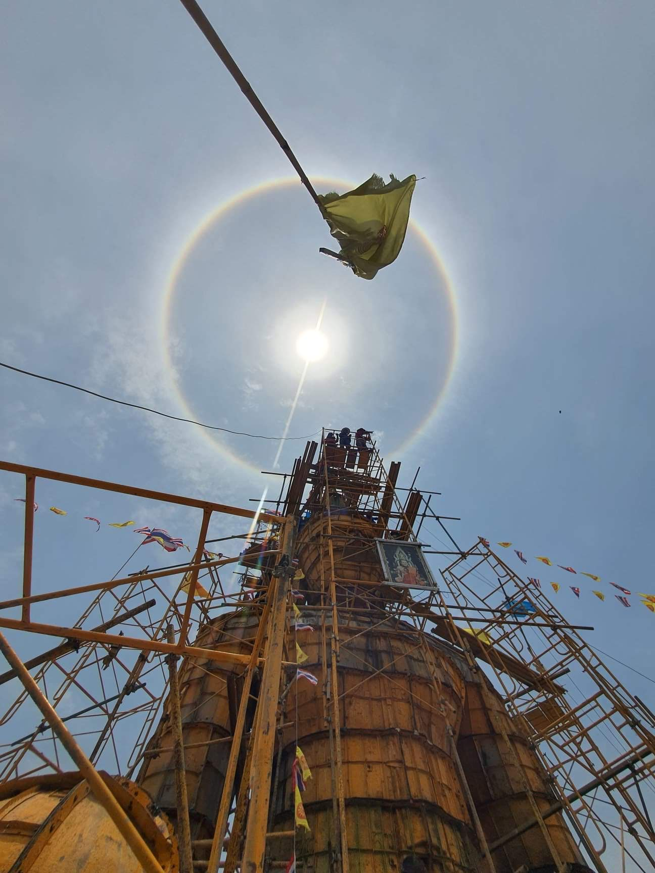 Phra Sambuddha Muni Siri-Uttaradit also known as The Great Buddha of Uttaradit. (Thai: หลวงพ่อใหญ่พระสัมพุทธมุนี สิริอุตรดิตถ์มหาปฏิมากร; Eng: Phra Sambuddha Muni Srisukhothai Triratanasavangkaburibapith Siri Uttaradit Mahapatimakara) Located in the Wat Kungtaphao temple in Uttaradit Province, this statue stands 19 m (63 ft) high, and is 10 m (33 ft) wide. Construction commenced in 2019, and was completed in 2020. It is made of concrete. The Buddha is in the seated posture called Maravijaya Attitude.